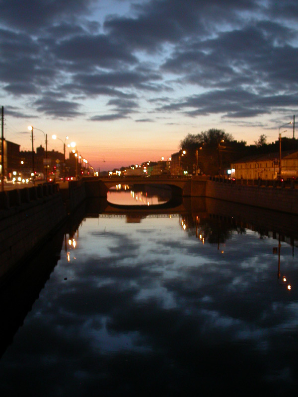 Obvodny Canal in Saint Petersburg, Russia